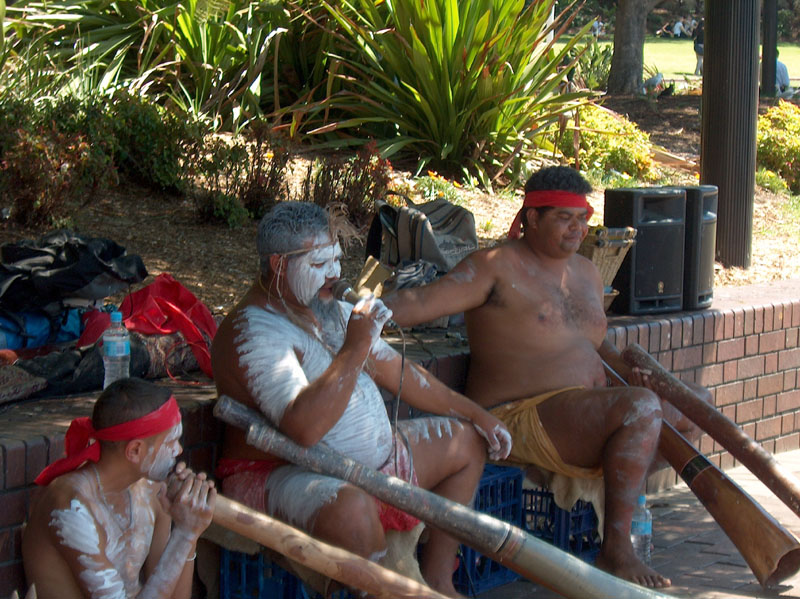 Aborigines Sydney Australia